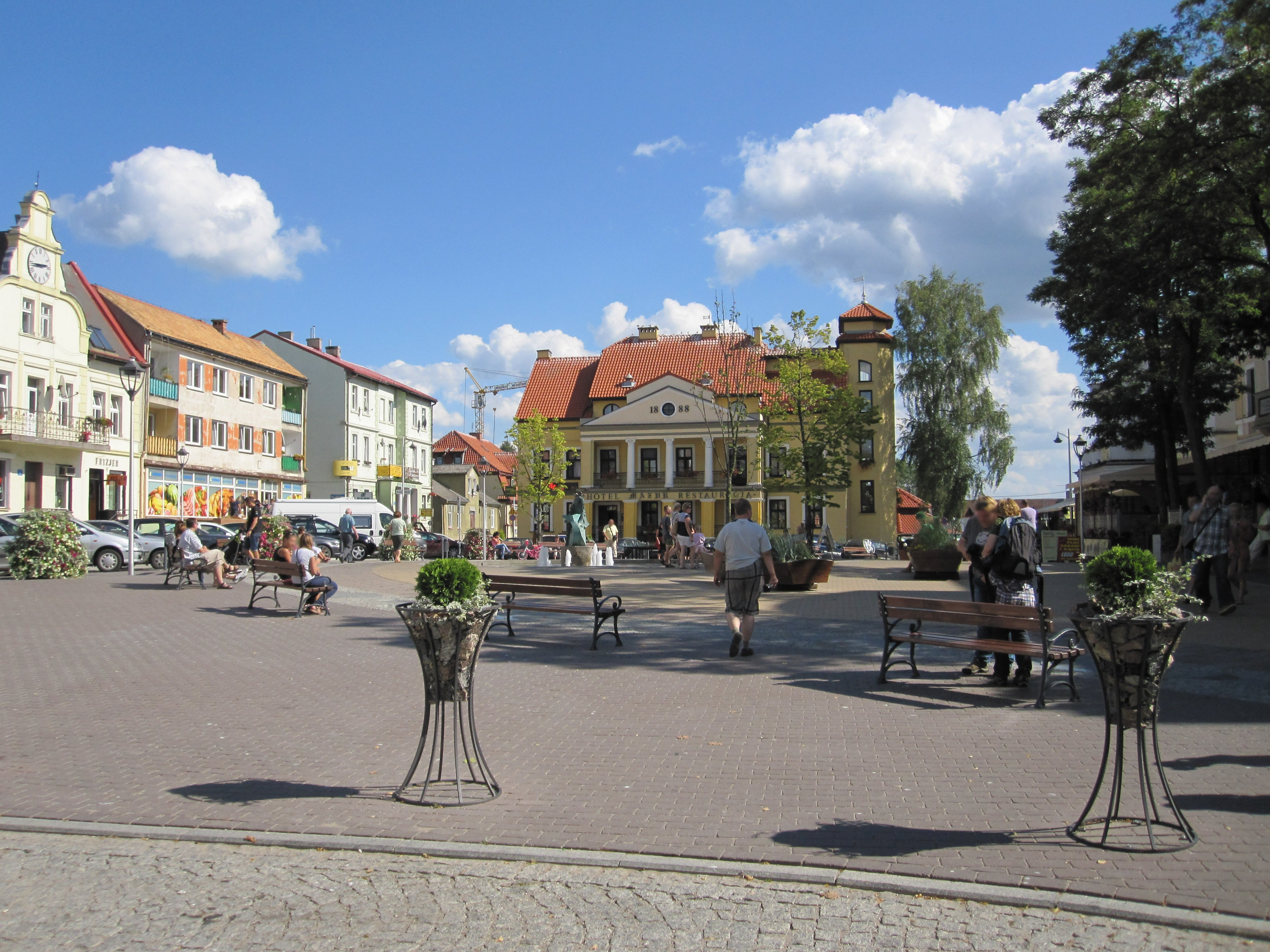 Building No. 1 on Wolności Street in Mikołajki